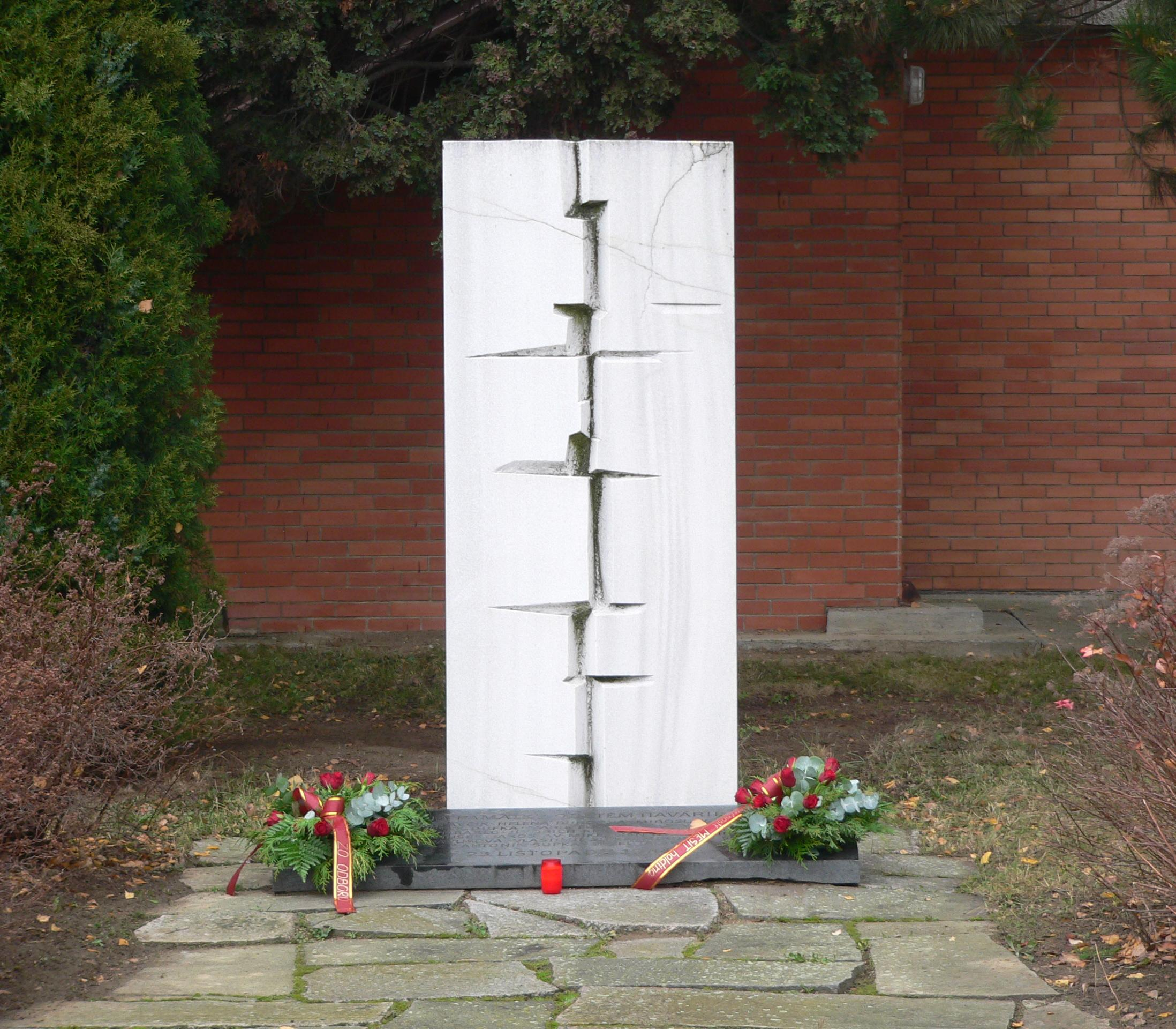 Monument on the grounds of the former national company MESIT in Uherské Hradiště (Czech Republic) commemorating victims of the tragedy of 23 November 1984.